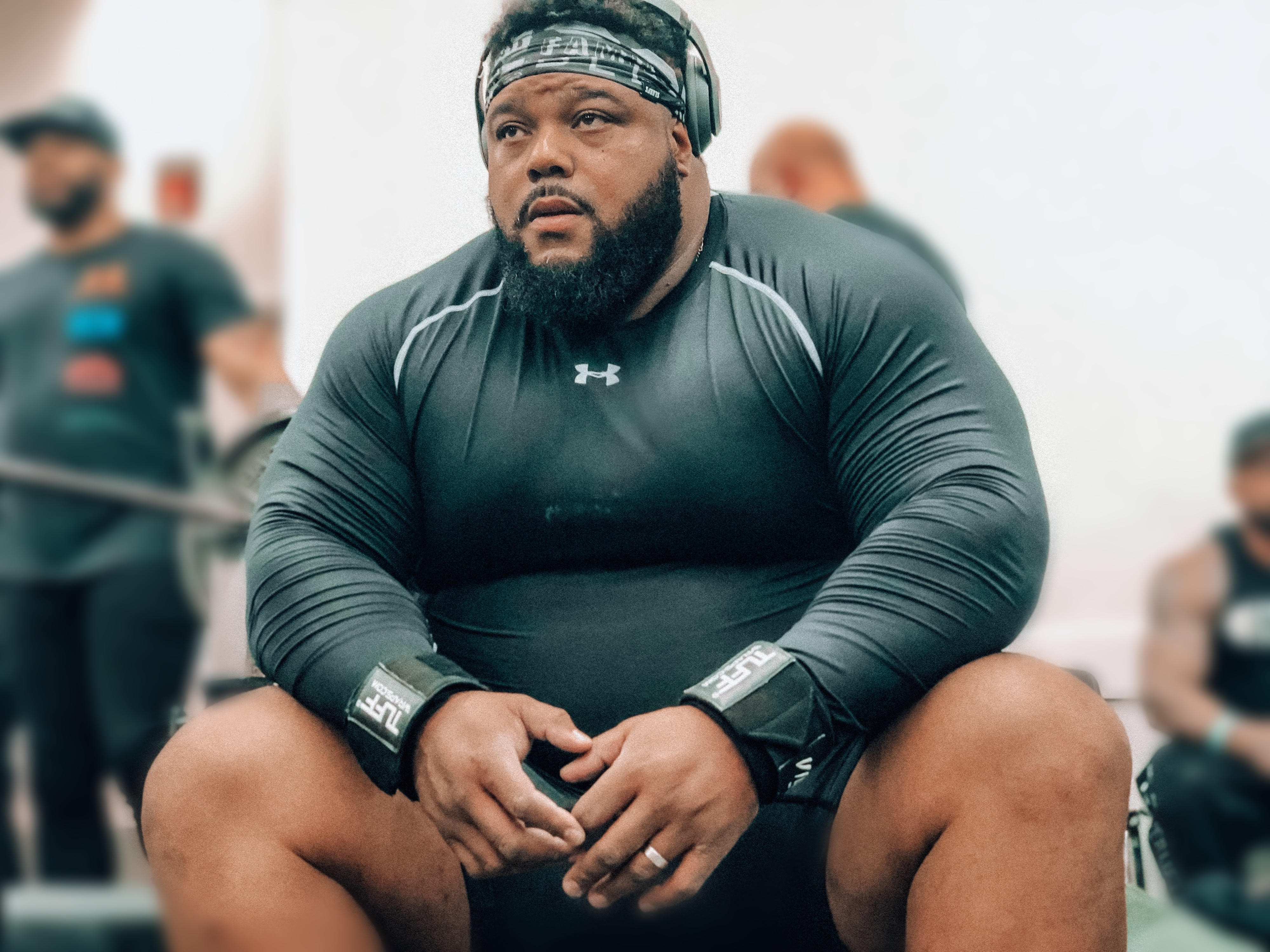 Julius Maddox in the warm up room before his 770lb World Record Bench Press